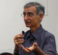 Ram Puniyani giving a lecture at Jahangirabad Media Institute on 04/05/2012